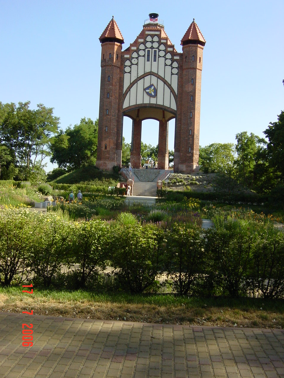 Bismarck Tower in Rathenow, Brandenburg, Germany, built 1913, opened 24/06/1914